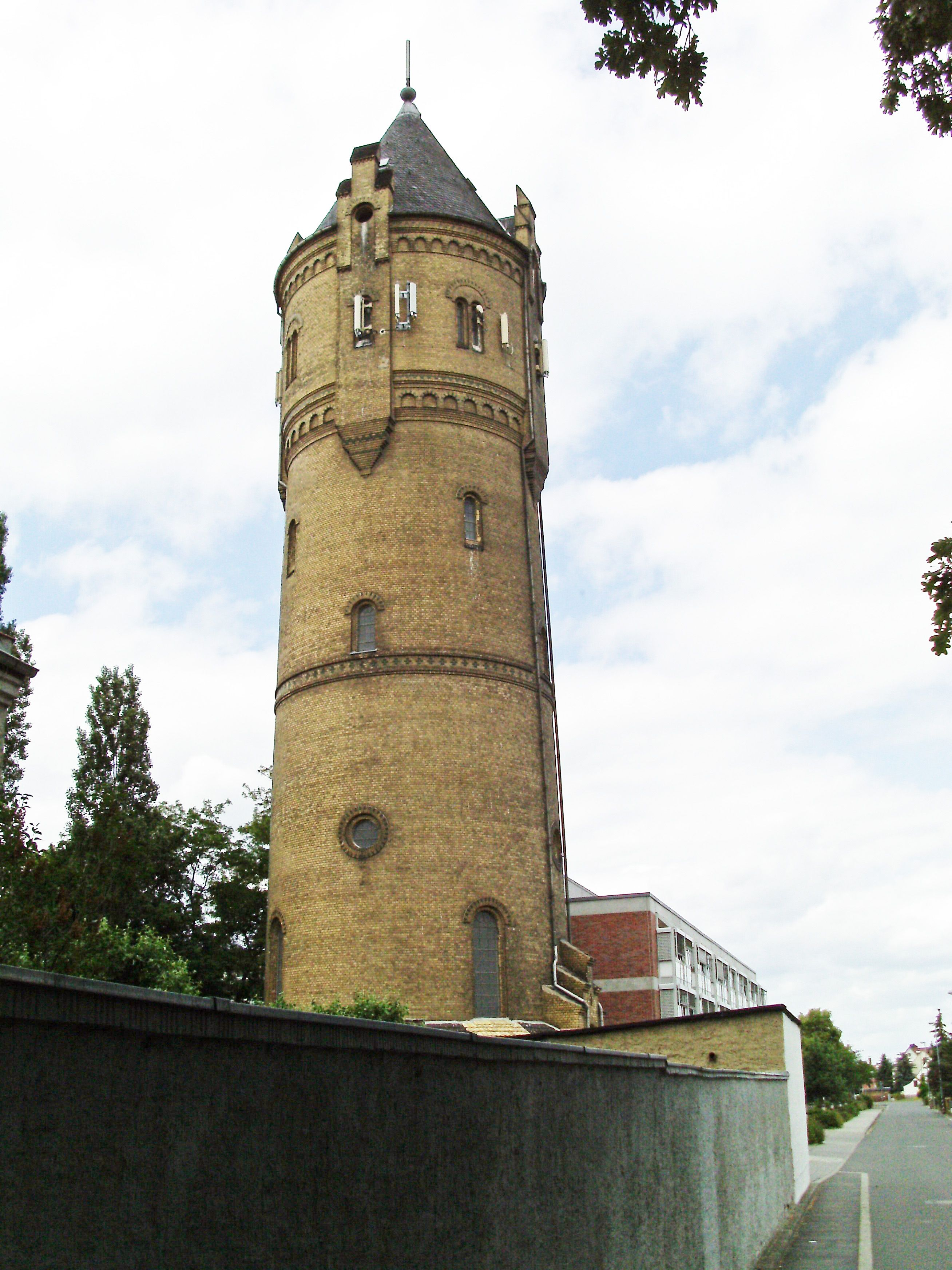 Water tower in Zwenkau (Leipzig district, Saxony)